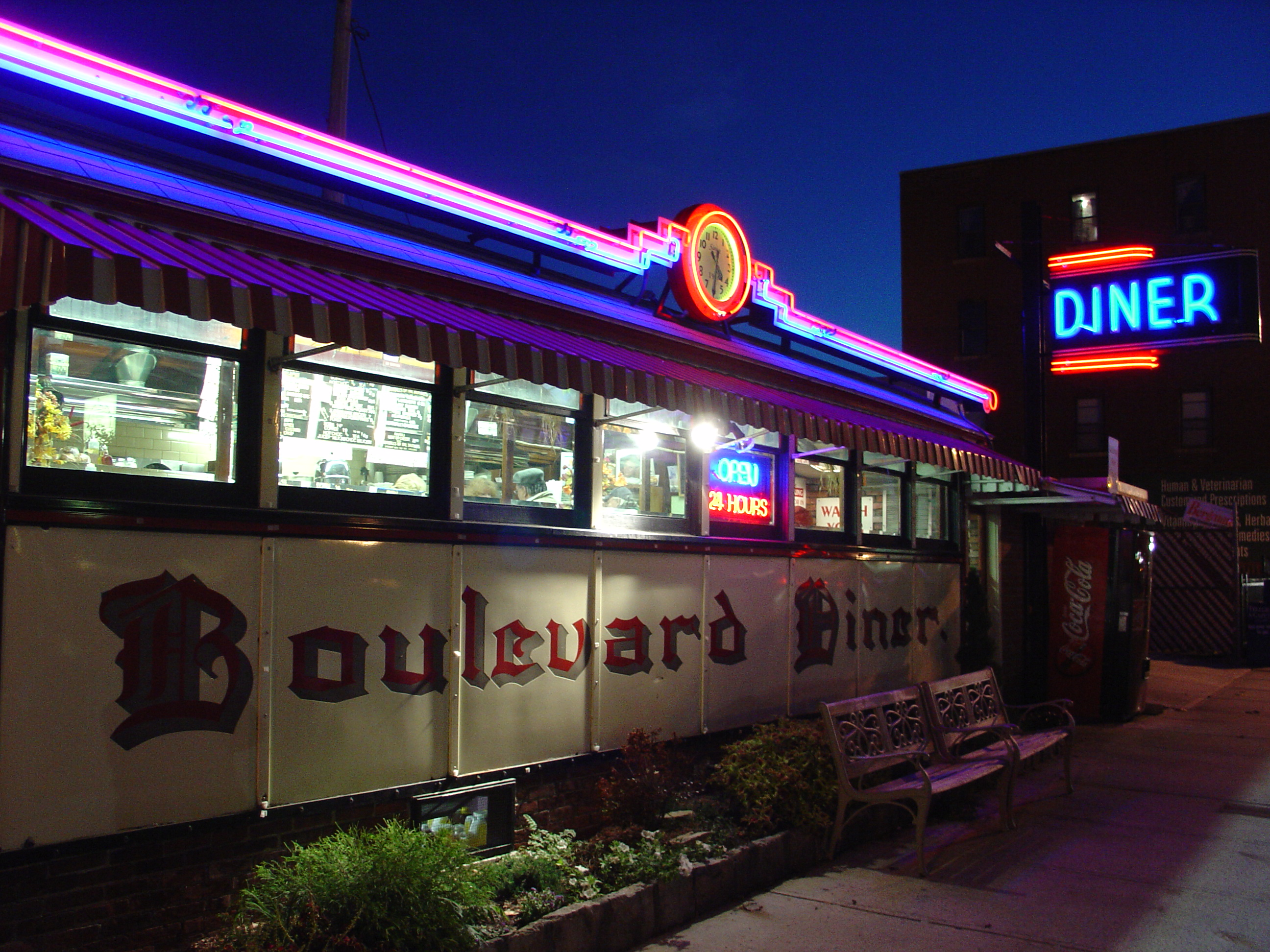 Boulevard Diner 155 Shrewsbury Street Worcester, Massachusetts Worcester Lunch Car Company #730, 1936